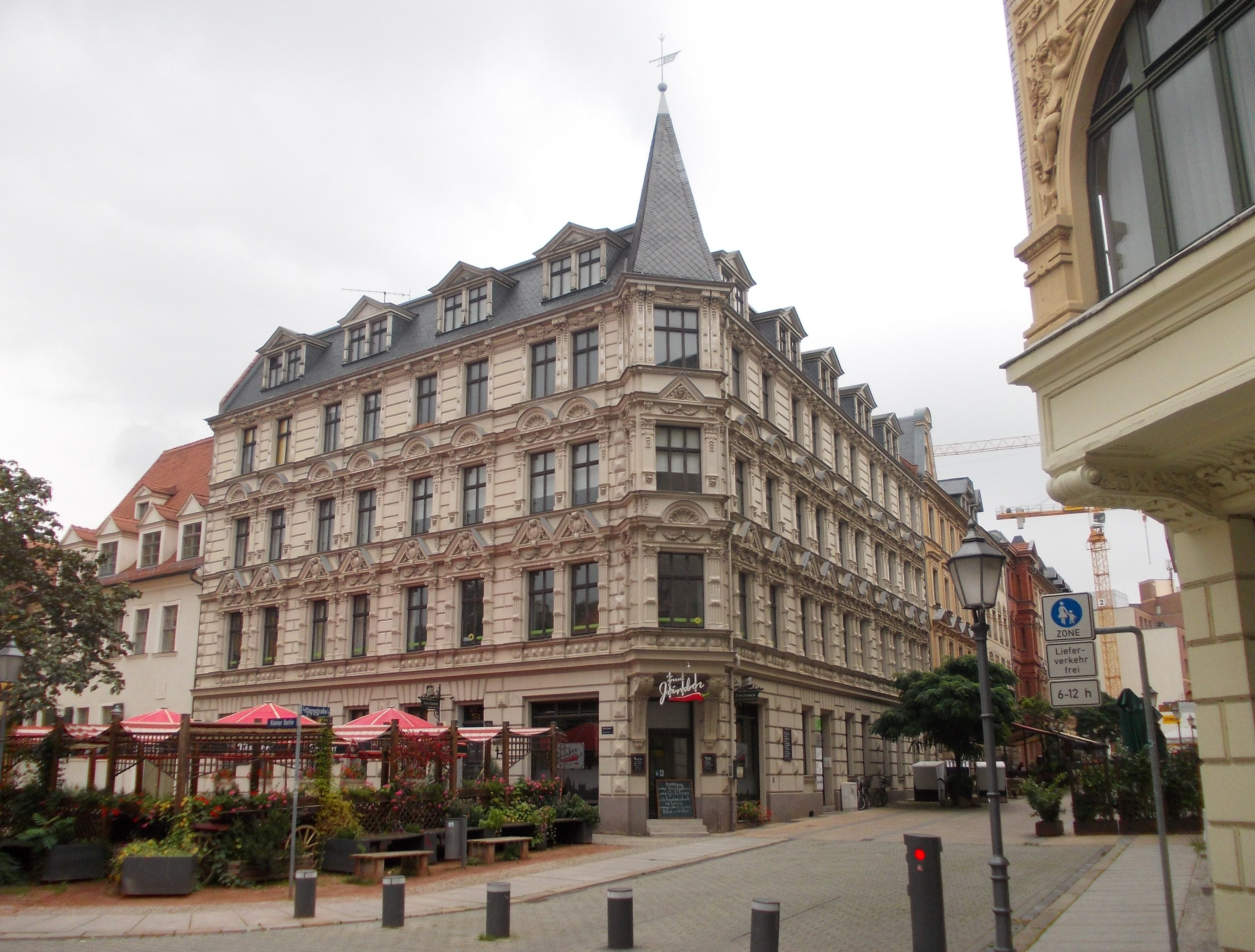 No. 2, Kleiner Berlin in Halle/Saale (Saxony-Anhalt)